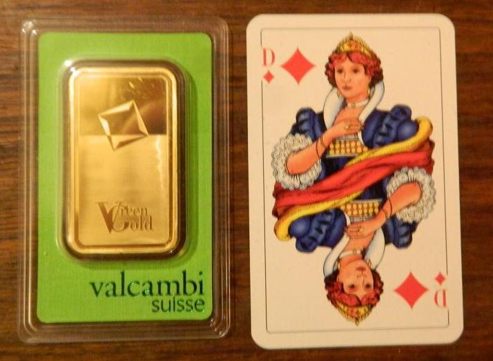 100 gram of investment gold compared to the size of a Queen of Diams card ("Ruter Dam" in Swedish. (Approx. 3.2 Troy Oz)